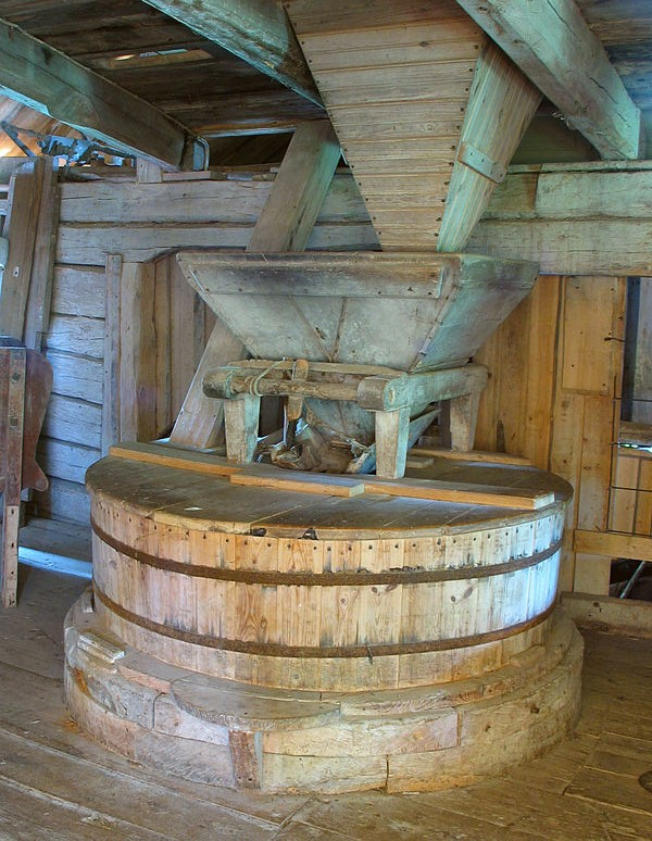 Flour mill, photo taken in Bergshamra, Stockholm County Sweden